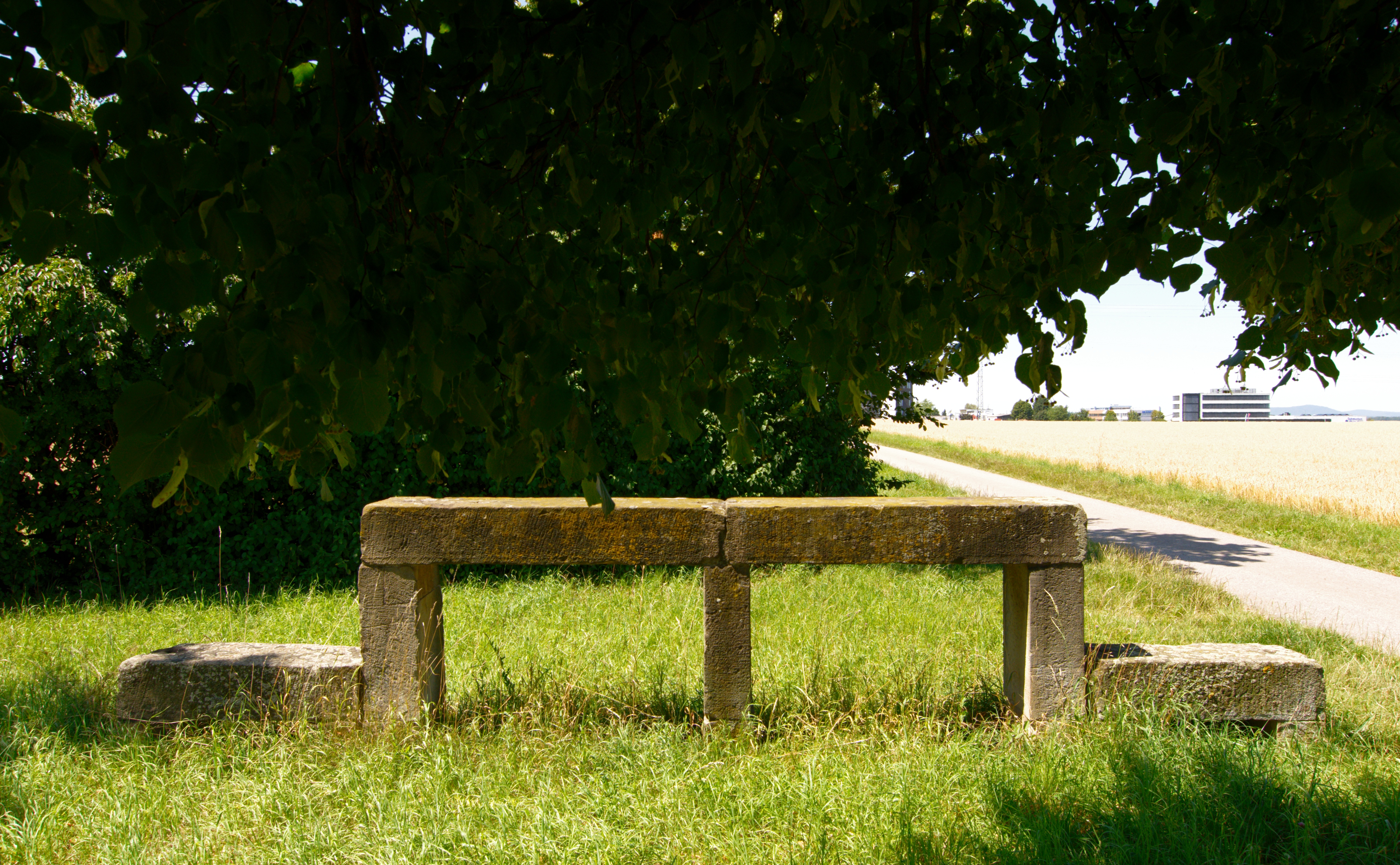 Stone rest bench near Freiberg am Neckar, biggest of its kind in Landkreis Ludwigsburg, dating probably from 1808